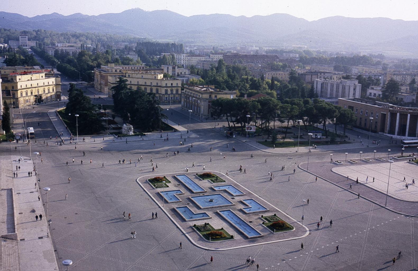 Skanderbeg Square, Tirana, Albania. This was taken in October 1988 shortly after the first outsiders were allowed in. Note the absence of cars.